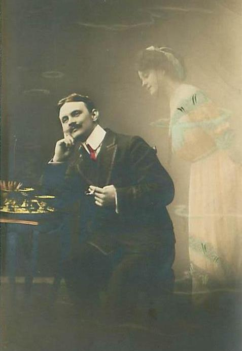 A daydreaming gentleman; from an original 1912 postcard published in Germany.